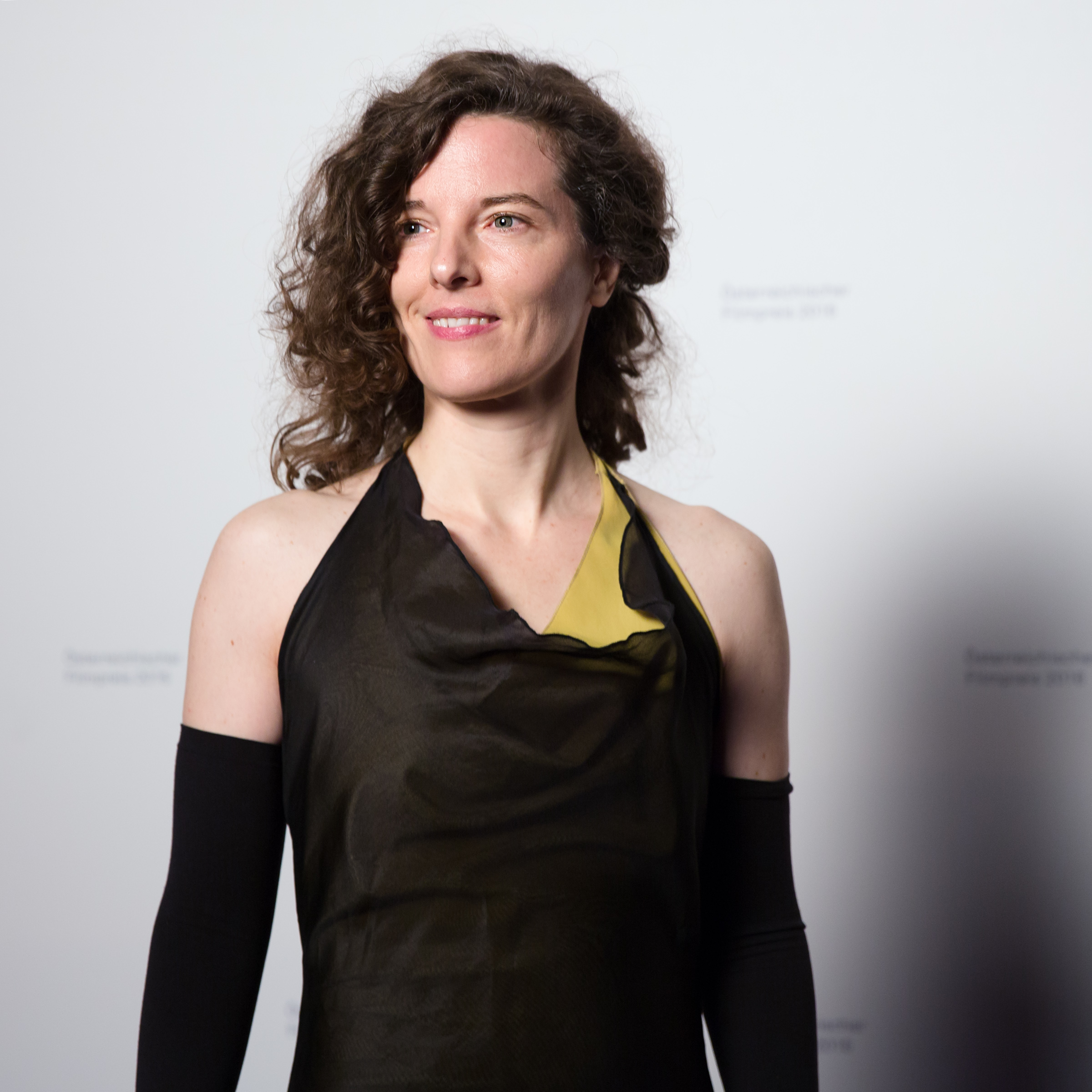 Veronika Hlawatsch at the Austrian Film Awards 2016 (Grafenegg, Austria).